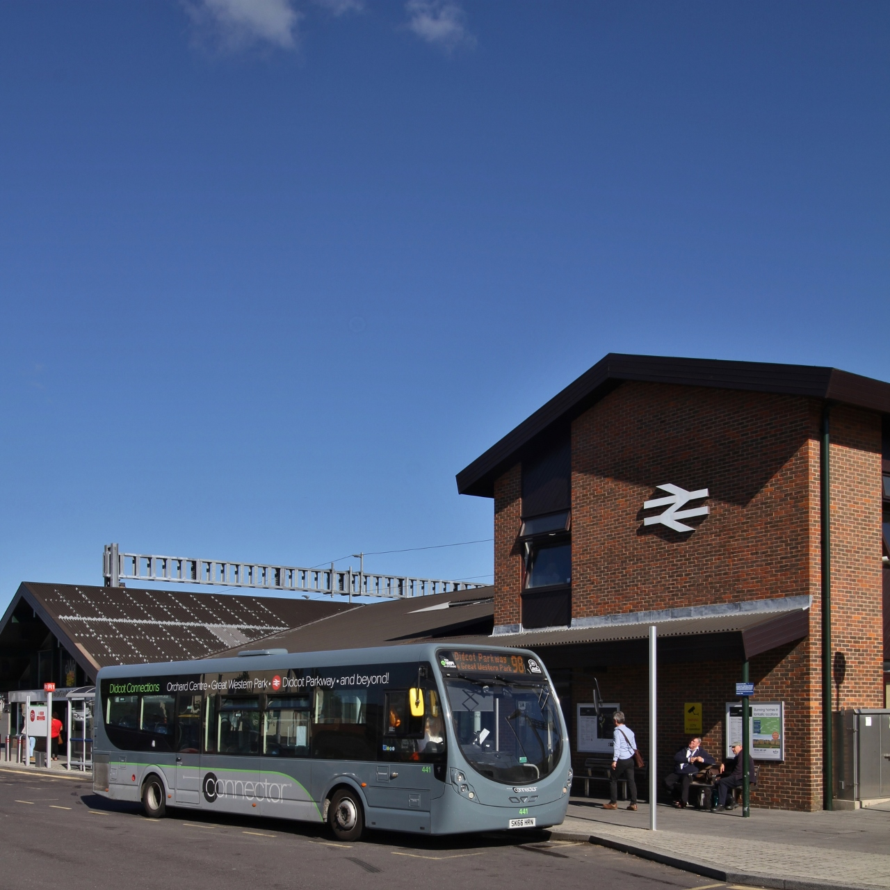 A Thames Travel bus on route 98 at Didcot Parkway railway station, Oxfordshire. The bus is a Wright StreetLite, registration mark SK66 HRN, fleet number 441.